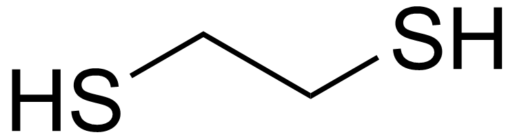 chemical structure of 1,2-ethanedithiol